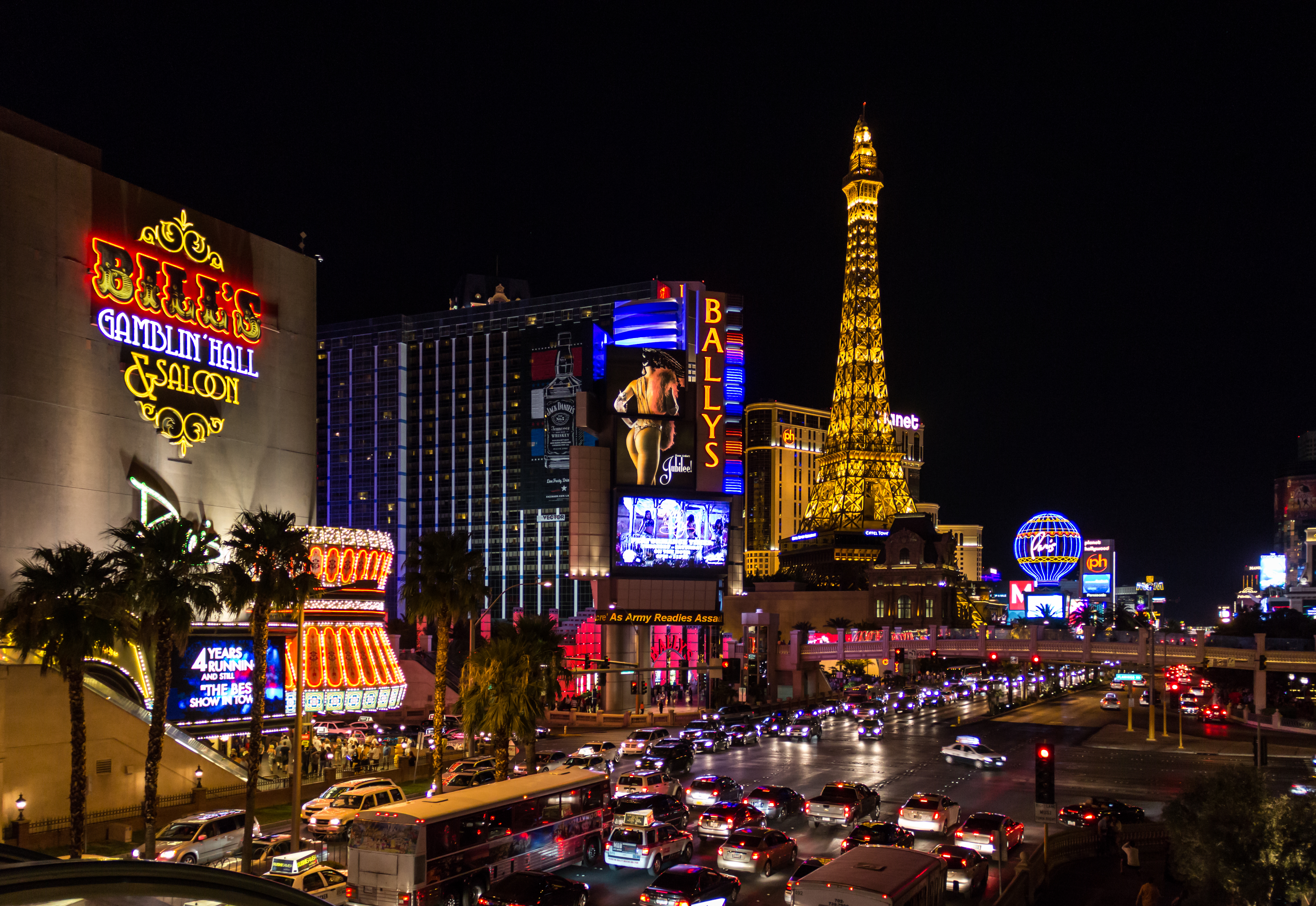 “The Strip” (part of the Las Vegas Boulevard) in Las Vegas (Nevada, USA)